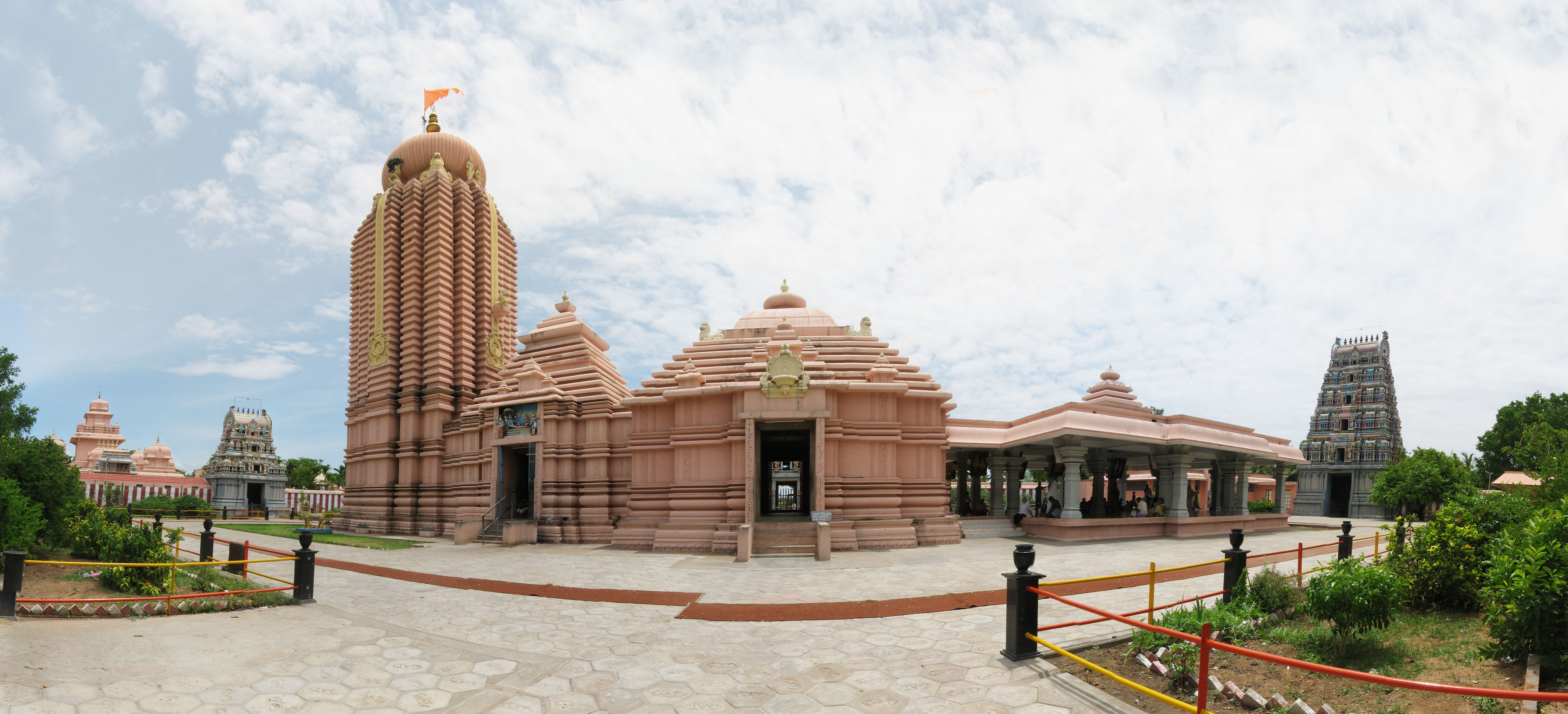 The Sri Panduranga temple in Thennangur. The temple is architecturally unique with elements from East and South India. The main temple (centre) is modelled upon the Jagannath Temple (Puri) while the perimeter towers (two visible, on left and right) is based on the Pandya temples. The temple's main deity is the Pandarpur Panduranga while the temple is located in Tamil Nadu.